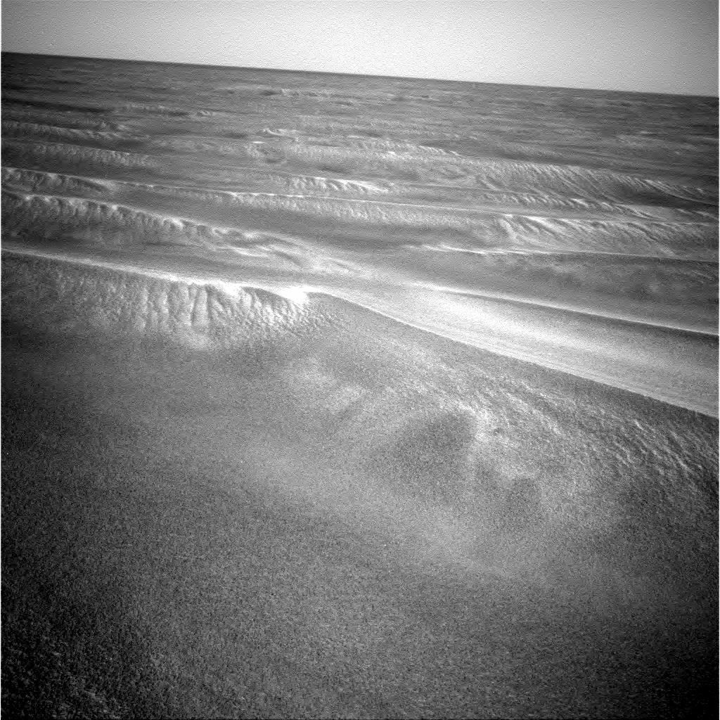 Left Navigation Camera Non-linearized Full frame EDR acquired on Sol of Opportunity's mission to Meridiani Planum at approximately Mars local solar time. NASA/JPL . NASA/JPL. This picture of sand dunes on mars was taken by Mars Rover Opportunity on Sol 446.